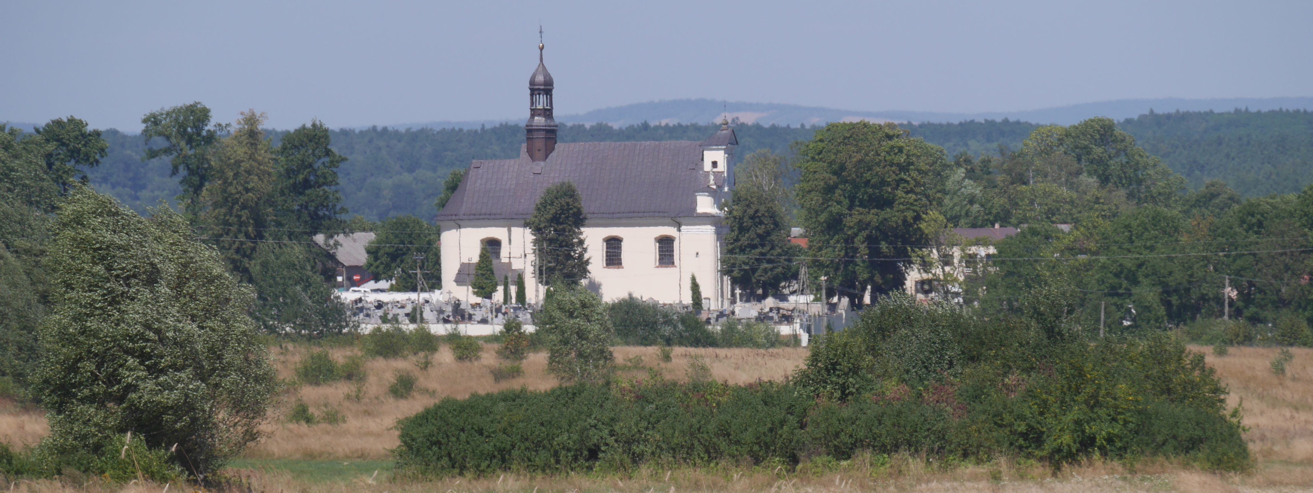 Saint Margaret church in Pierzchnica